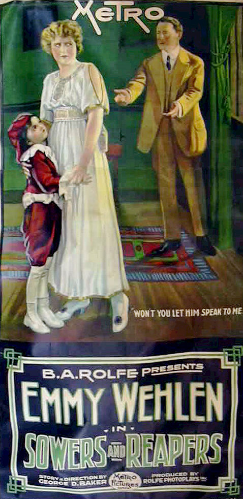 Poster for the 1917 American film Sowers and Reapers. The film is considered lost.